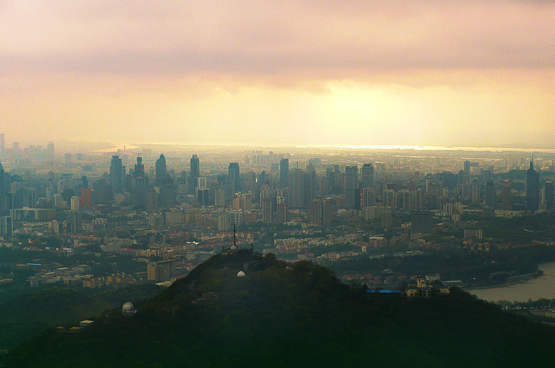 Taken by dad,from Zijin Mountain,top of Nanjing.